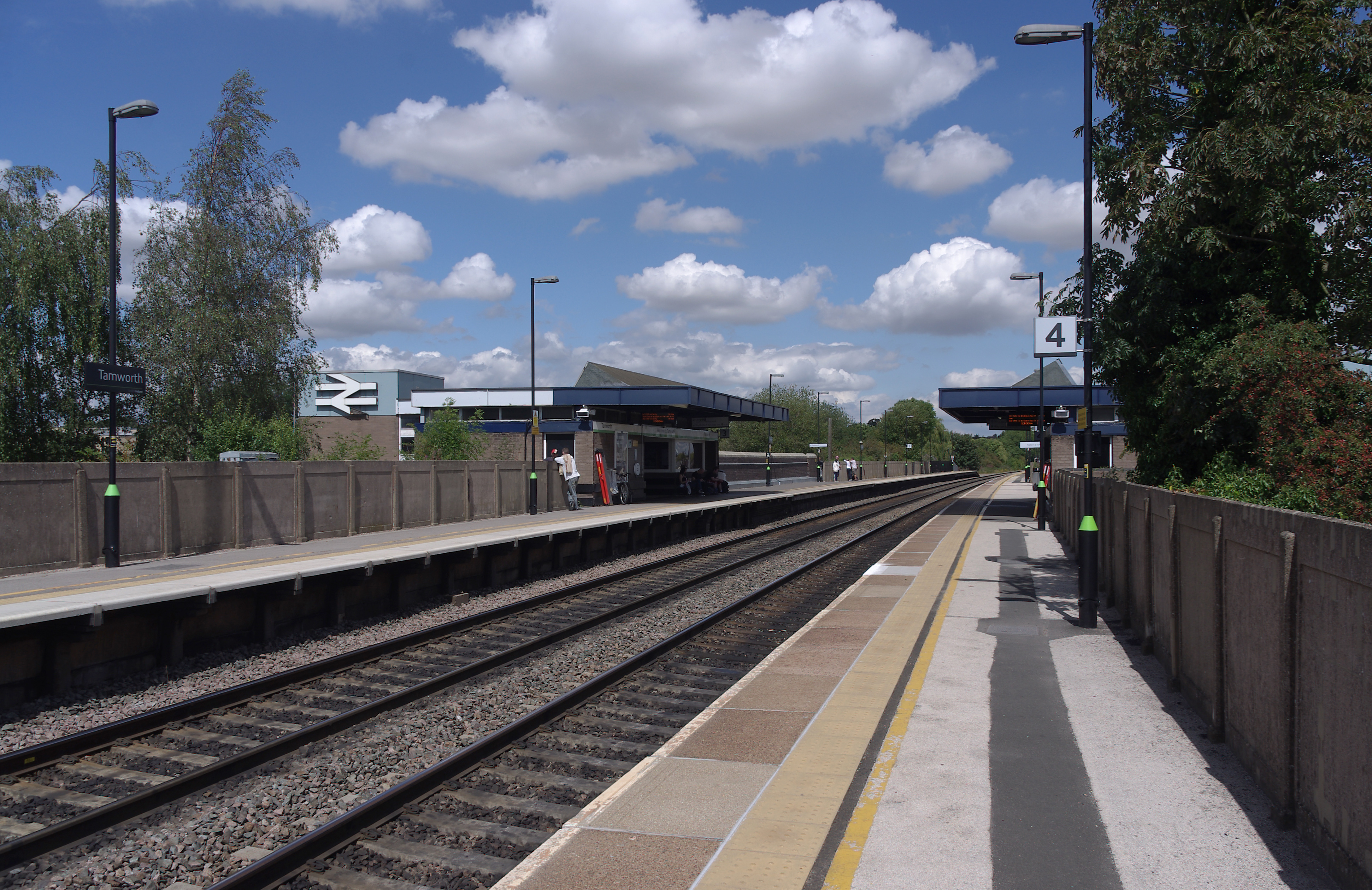 Tamworth railway station, high level, looking north.